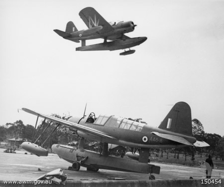 At No. 1 Flying Boat Repair Depot RAAF at Lake Boga, Victoria (Australia), a Vought OS2U Kingfisher two seat reconnaissance seaplane overflys a similar aircraft on the tarmac, in August 1942. These aircraft, acquired from the United States were extensively used for searching for Japanese submarines in Australian coastal waters.